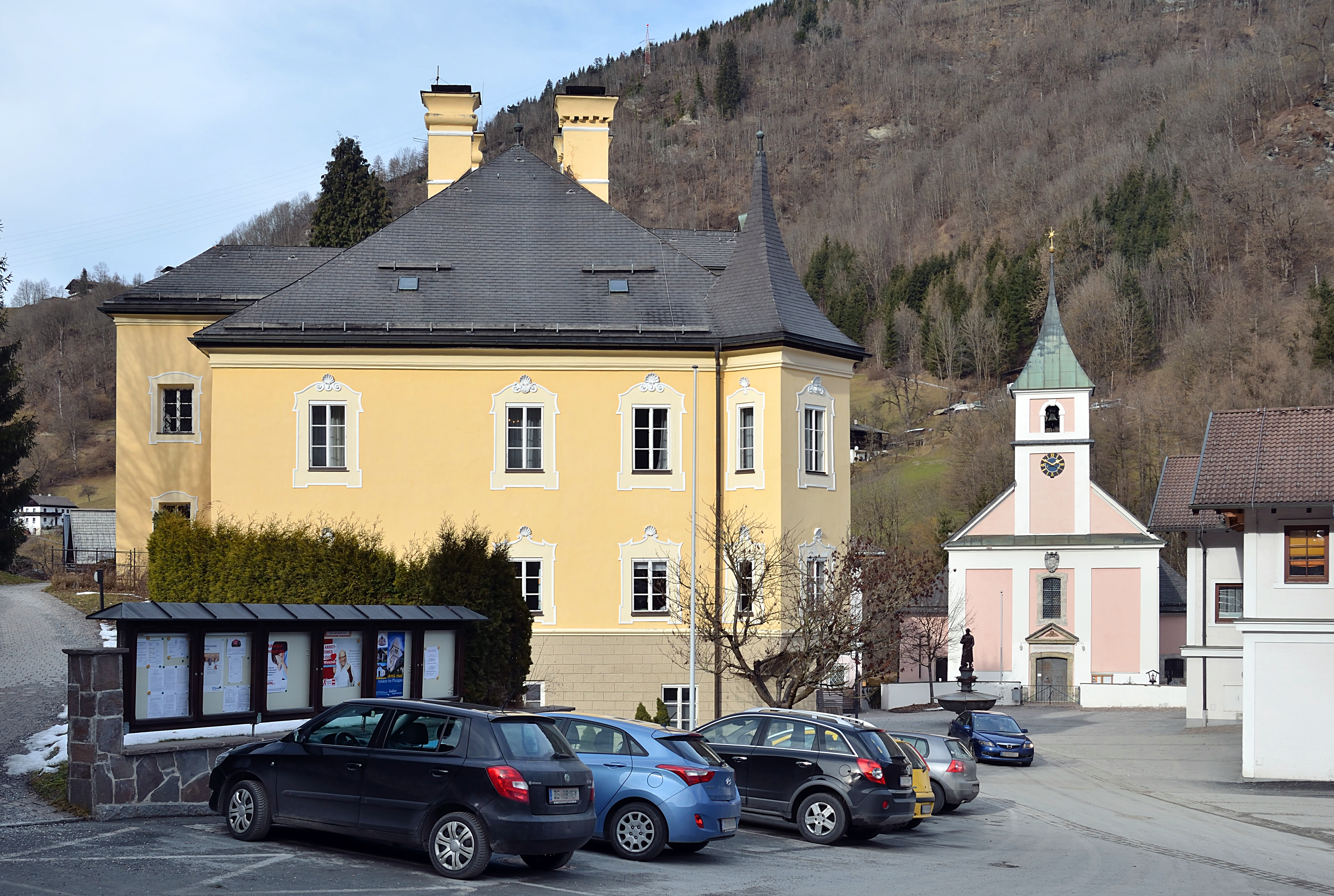 Municipal office of Lend, Salzburg, former Verwesschloss, administrative building for the owners of the mines in the Gastein valley.